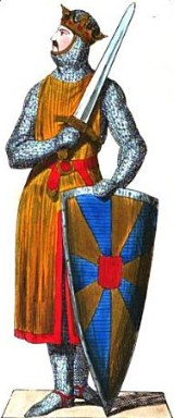 Arnulf III, Count of Flanders. His shield is blazoned: Gyronny of ten pieces Or and Azure, an inescutcheon Gules.